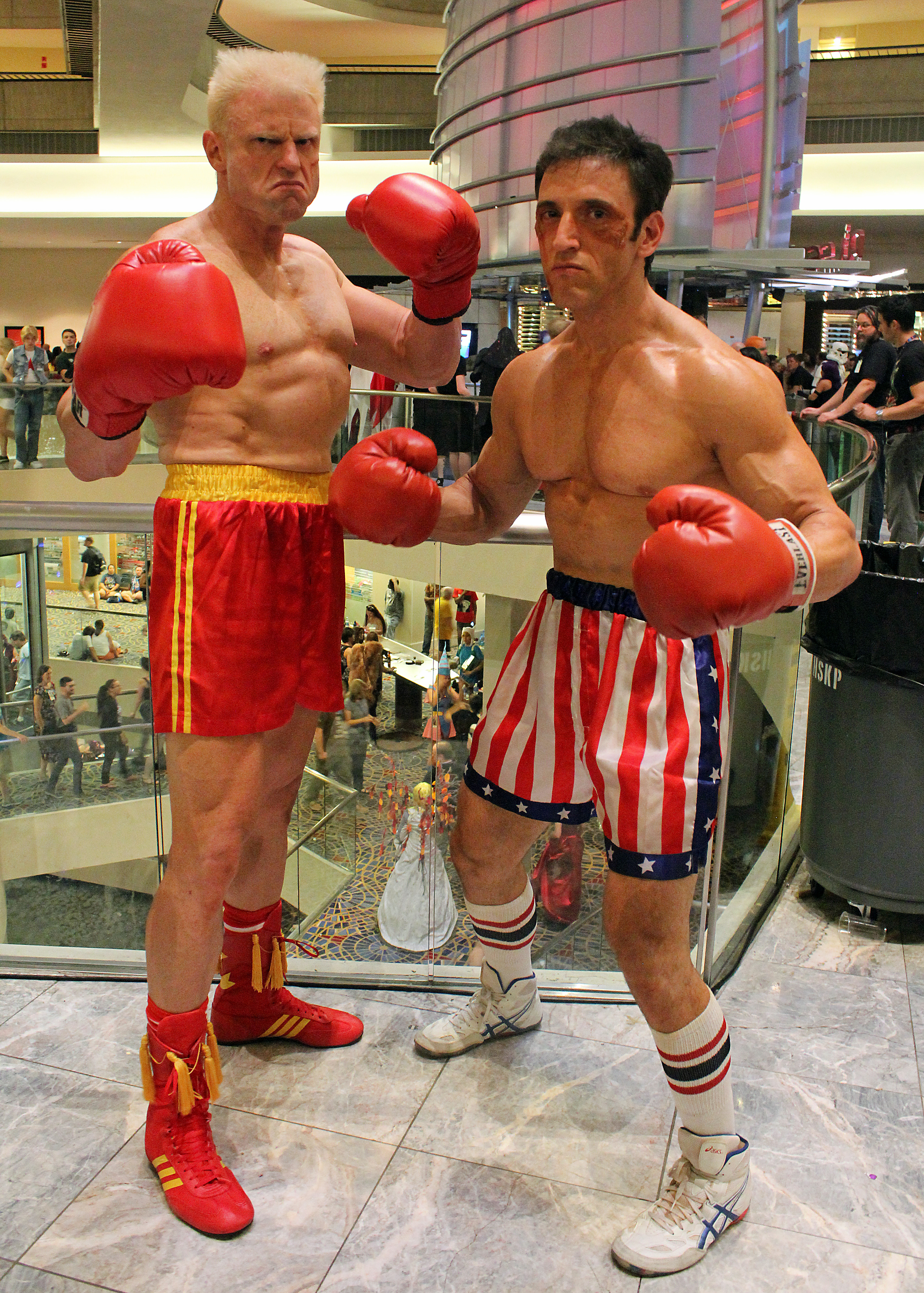 Cosplay of the Rocky IV characters Ivan Drago (left) and Rocky Balboa (right, by Lon "Lonstermash" Brown) at Dragon Con 2014.